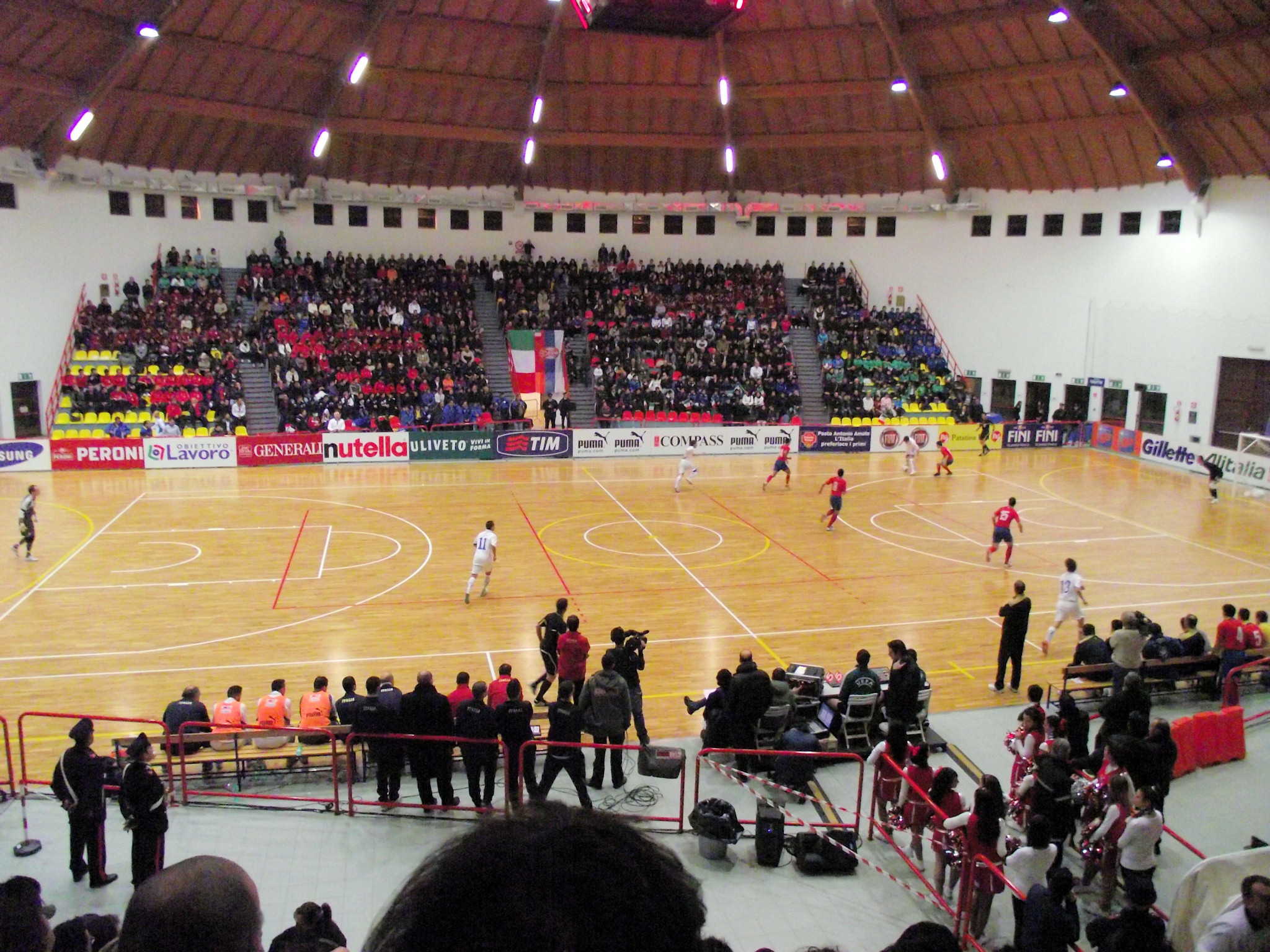 Action during the friendly futsal match between Italy (in white) and Serbia (in red) played at the indoor stadium of Carbonia, Sardinia, Italy the 19th January 2011. Italy won 2-0.